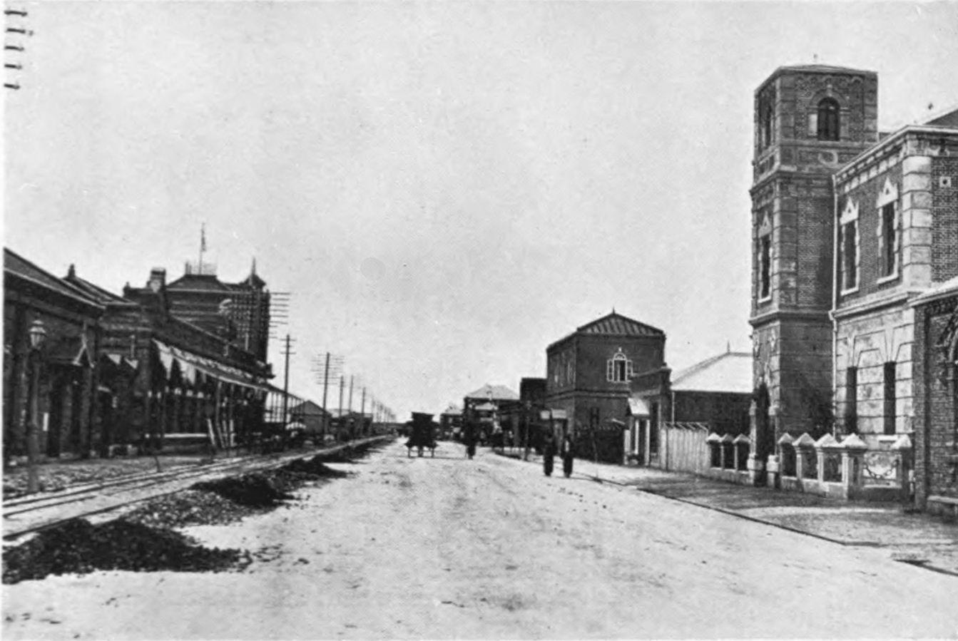 a street scene in the japanese concession at newchwang